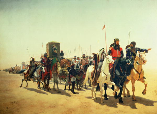 Richard, Coeur De Lion, On His Way To Jerusalem (Richard, the Lion Heart, On His Way To Jerusalem